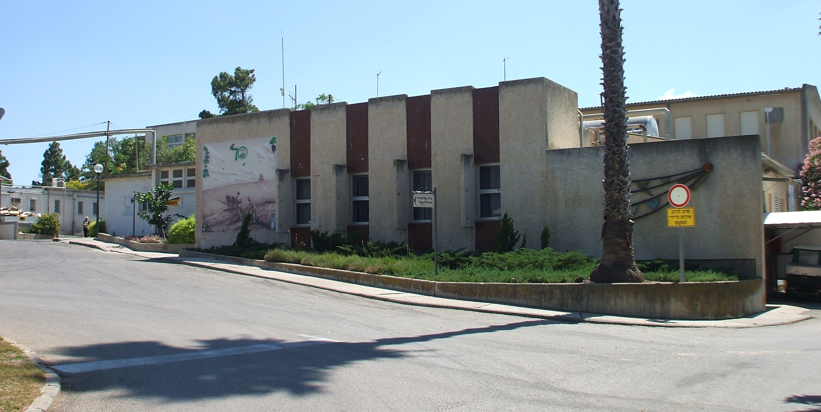 Kibbutz Dalia, Meggido council, Israel